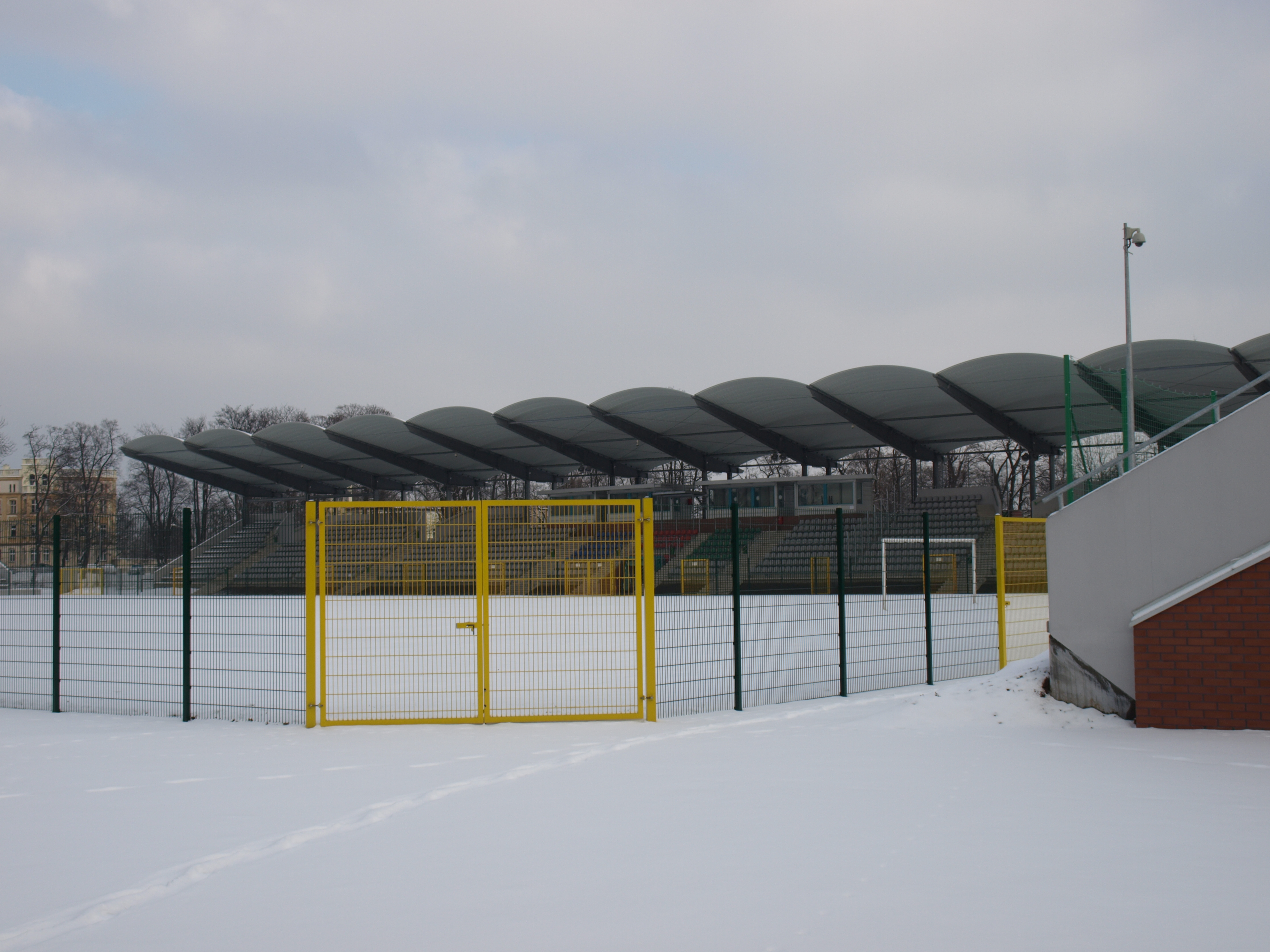 stadium orla bialego in legnica